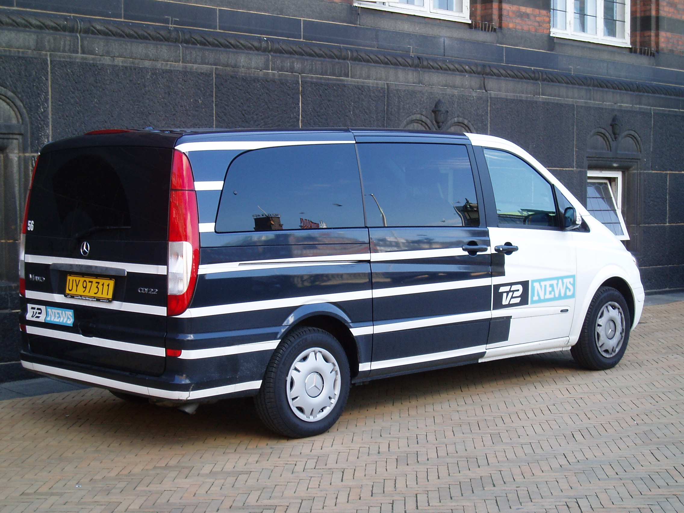 Mercedes-Benz Viano broadcasting vehicle of Danish tv news station TV2 NEWS.